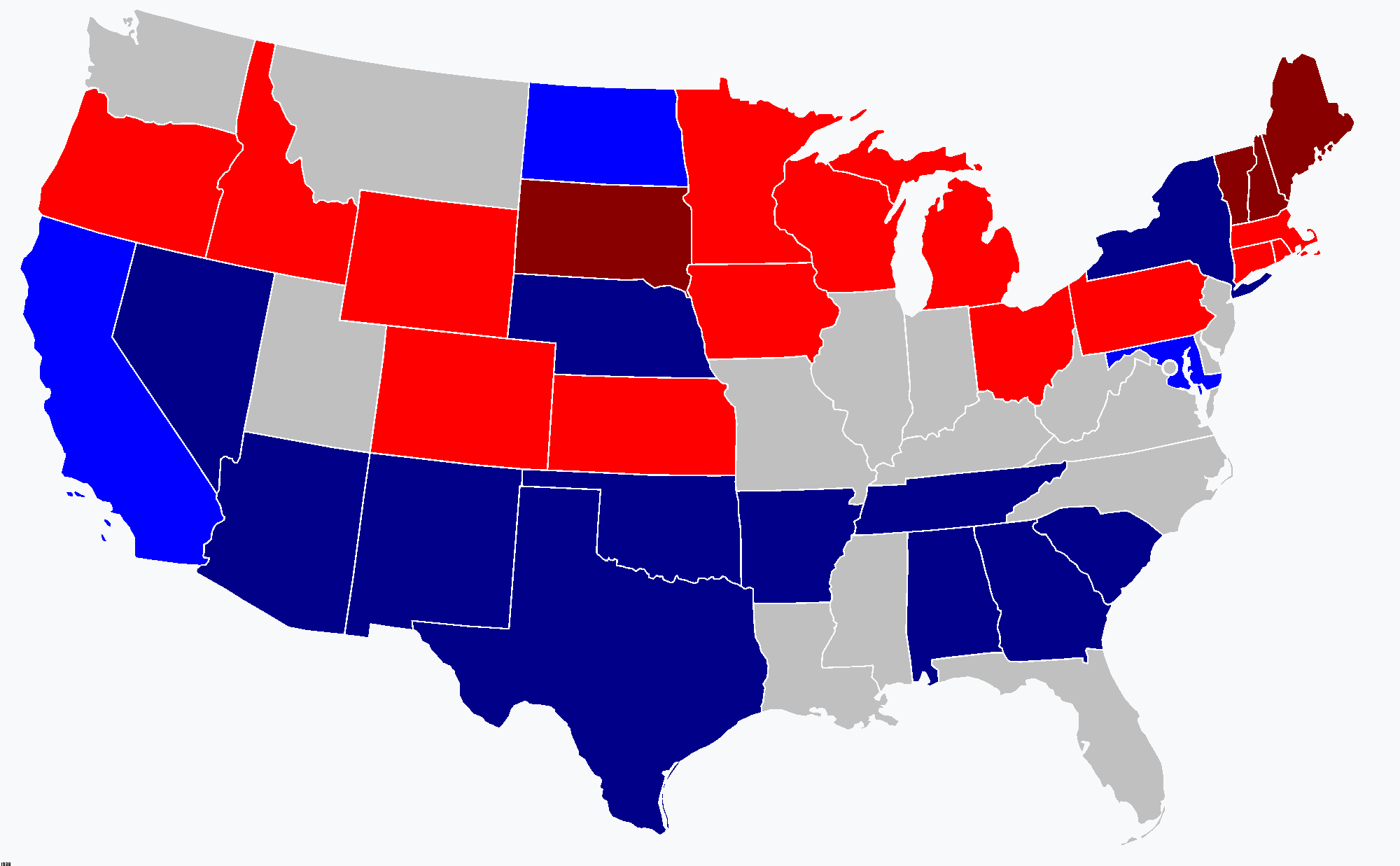 A map showing the results of the 1938 United States Gubernatorial elections